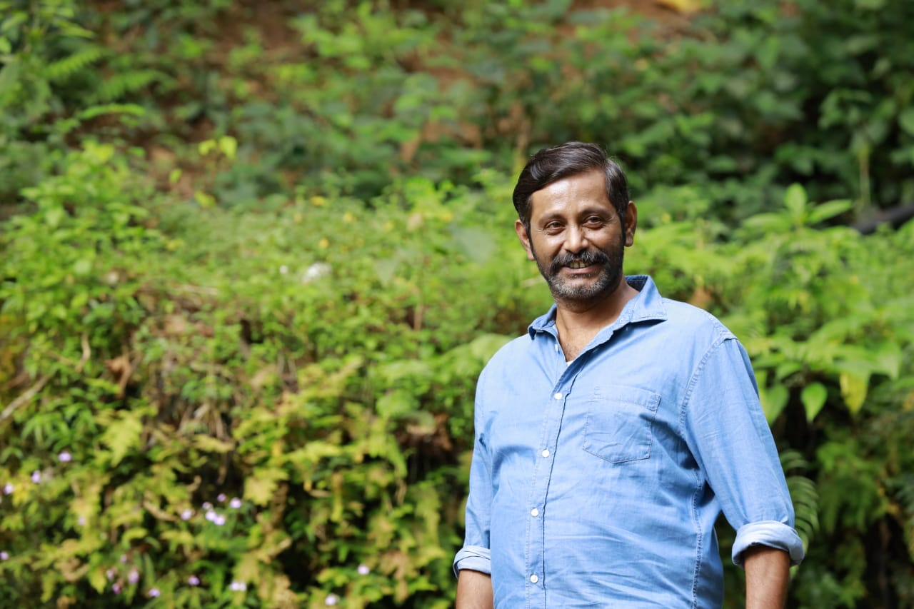 Rajesh Sharma is an Indian actor, who appears in Malayalam movies. He acted in several dramas and debuted in Malayalam movie industry in 2005